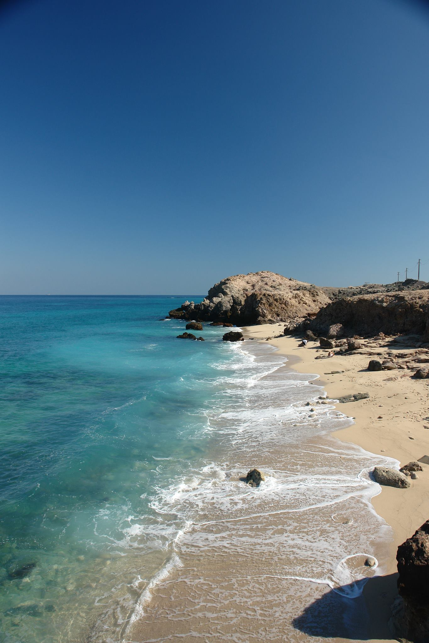 Siri / Sirri Island in the Persian Gulf -- Photo by Babak Nazari / Persian Dutch Network